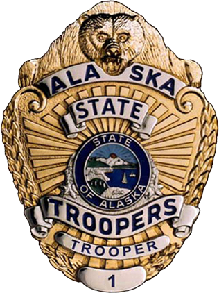 Image of an Alaska State Trooper badge. Made with Photoshop.